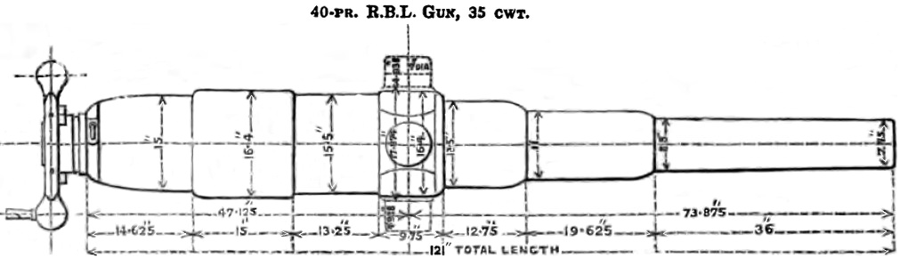 Diagram showing dimensions of RBL 40 pounder 35 cwt Armstrong gun barrel.